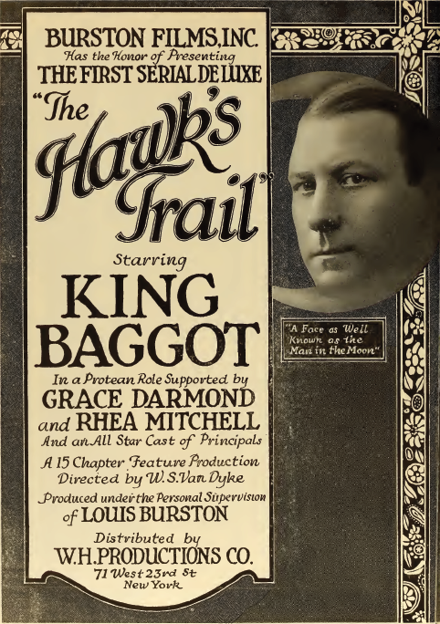 Advertisement for King Baggot in the American crime film serial The Hawk's Trail (1919).